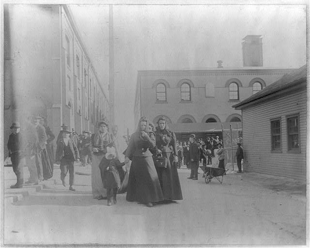 Title: Quarantine station, Hoffman Island, NYC: group of immigrants amid buildings Abstract/medium: 1 photograph : print.